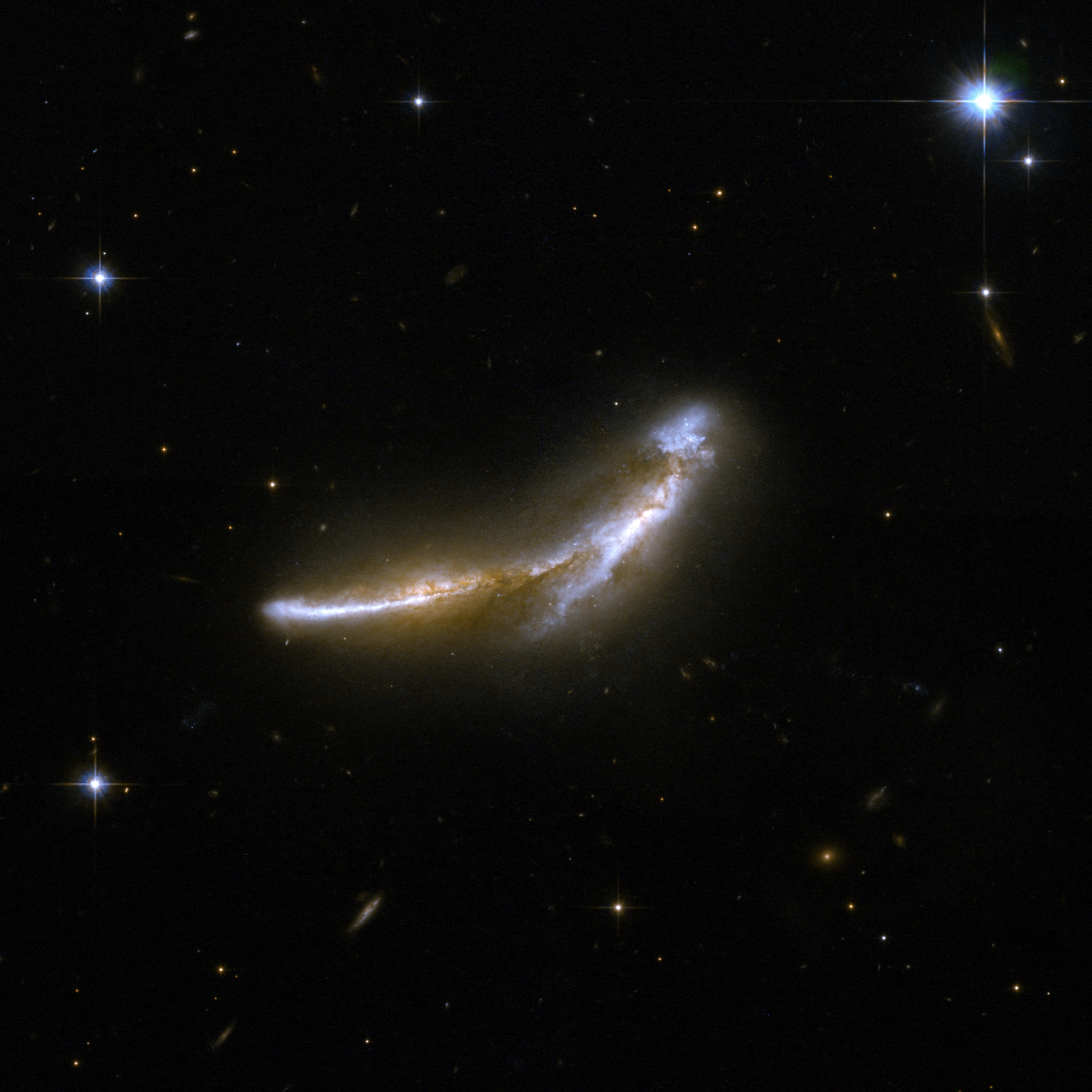 NGC 6670 is a gorgeous pair of overlapping edge-on galaxies resembling a leaping dolphin. Scientists believe that NGC 6670 has already experienced at least one close encounter and is now in the early stages of a second. The nuclei of the two galaxies are approximately 50,000 light-years apart. NGC 6670 glows in the infrared with more than a hundred billion times the luminosity of our Sun and is thought to be entering a starburst phase. The pair is located some 400 million light-years away from Earth. This image is part of a large collection of 59 images of merging galaxies taken by the Hubble Space Telescope and released on the occasion of its 18th anniversary on 24th April 2008. About the objectObject nameNGC 6670 , NGC 6670A/B, VII Zw 812Object descriptionInteracting GalaxiesPosition (J2000)18 33 37.38 +59 53 21.2ConstellationPavoDistance400 million light-years (100 million parsecs)About the dataData descriptionThe Hubble image was created using HST data from proposal 10592: A. Evans (University of Virginia, Charlottesville/NRAO/Stony Brook University)InstrumentACS/WFCExposure date(s)October 30, 2001Exposure time38 minutesFiltersF435W (B) and F814W (I)